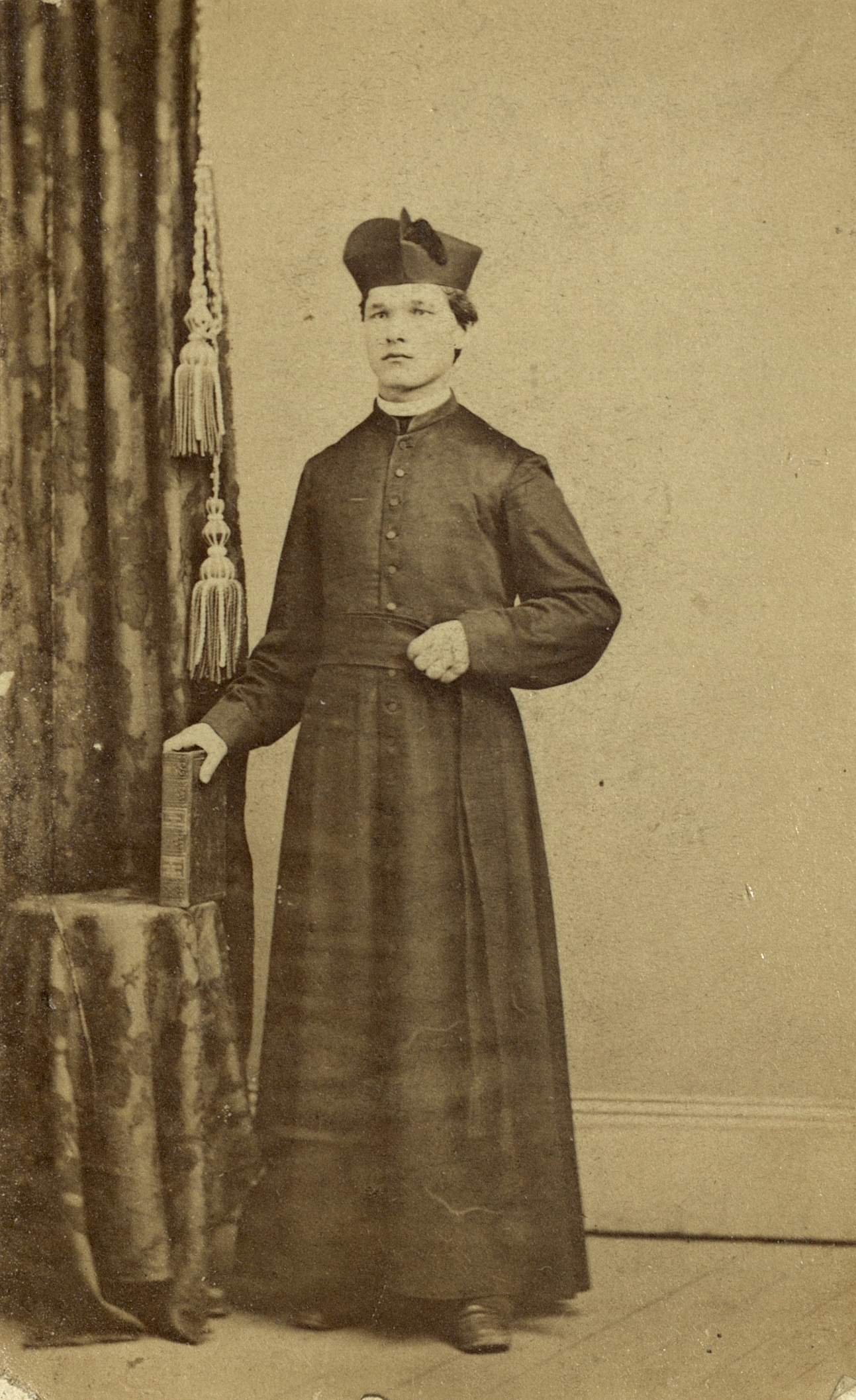 Janez Stariha (1845-1915), slovene bishop.